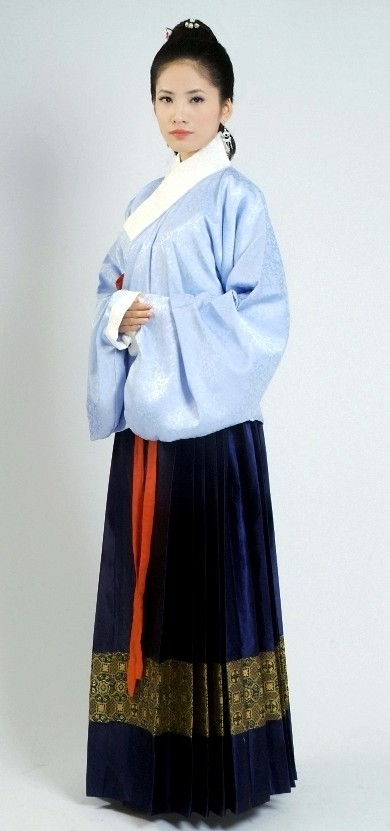 Ruqun (襦裙) with mamianqun (馬面裙) - Women's Chinese traditional clothing (hanfu)